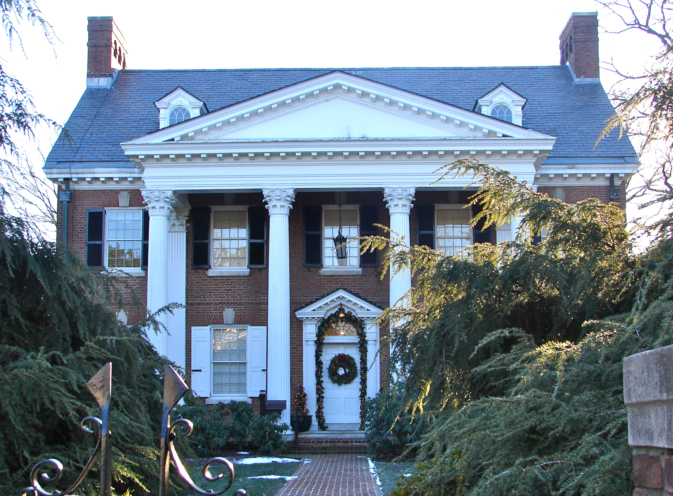 Wright House on the NRHP since May 7, 1982. At 47 Kent Way on the University of Delaware campus, Newark, New Castle County, Delaware.